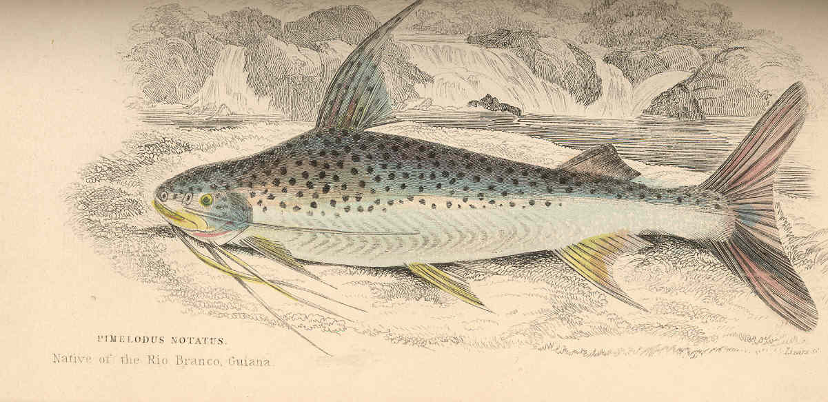 Pimelodus notatus. Native of the Rio Branco, Buiana, Valid as Platynematichthys notatus (Jardine 1841) Subject: Pimelodidae, Catfishes Tag: Fish